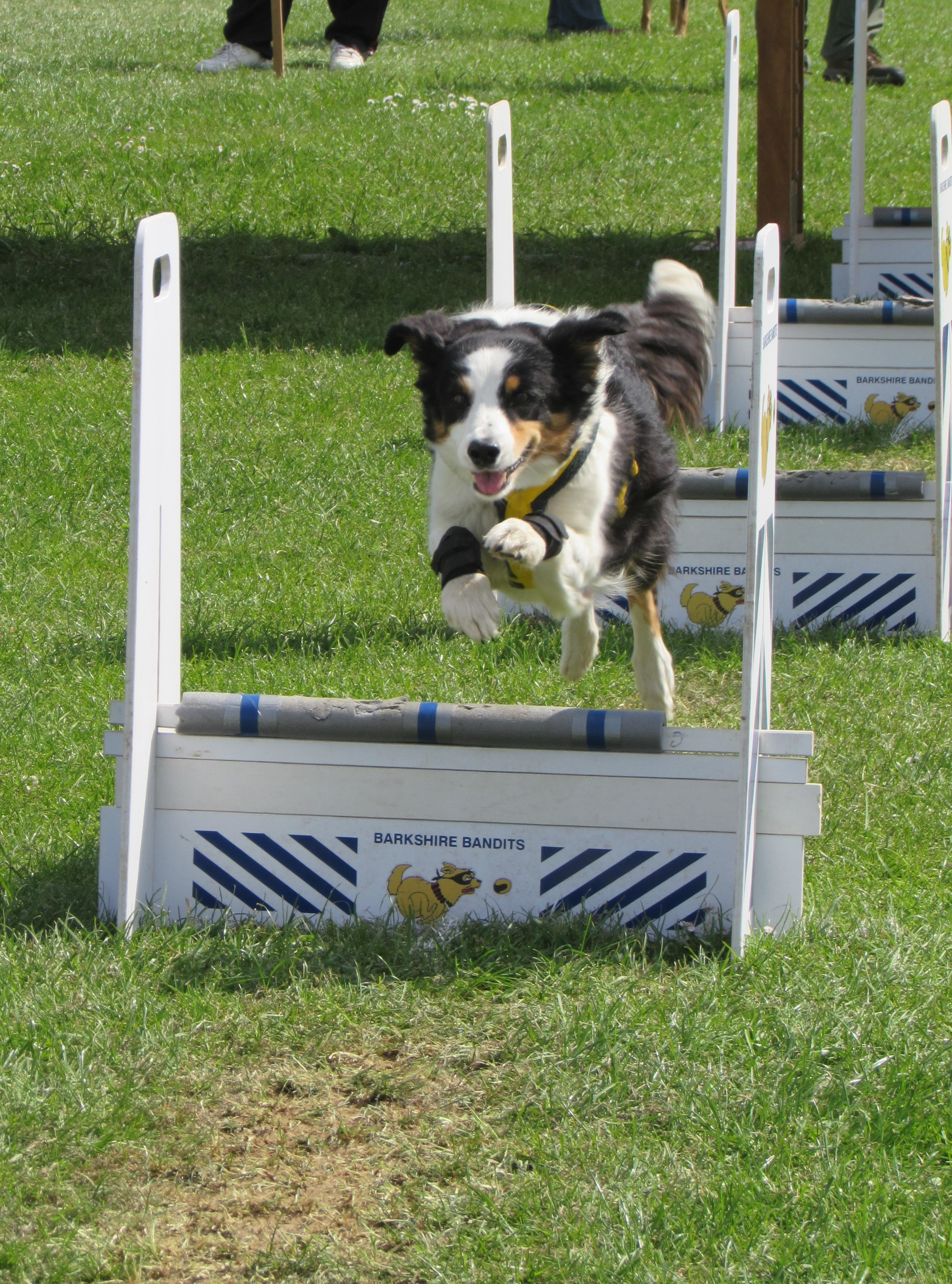 Dog in competition over jumps